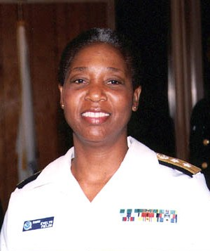 cropped version of Evelyn J. Fields